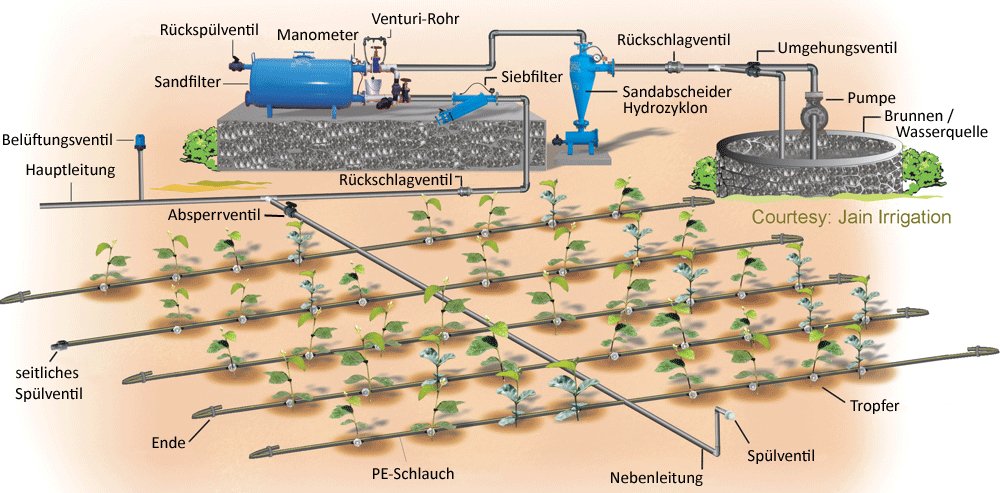 Drip Irrigation Layout and its parts.